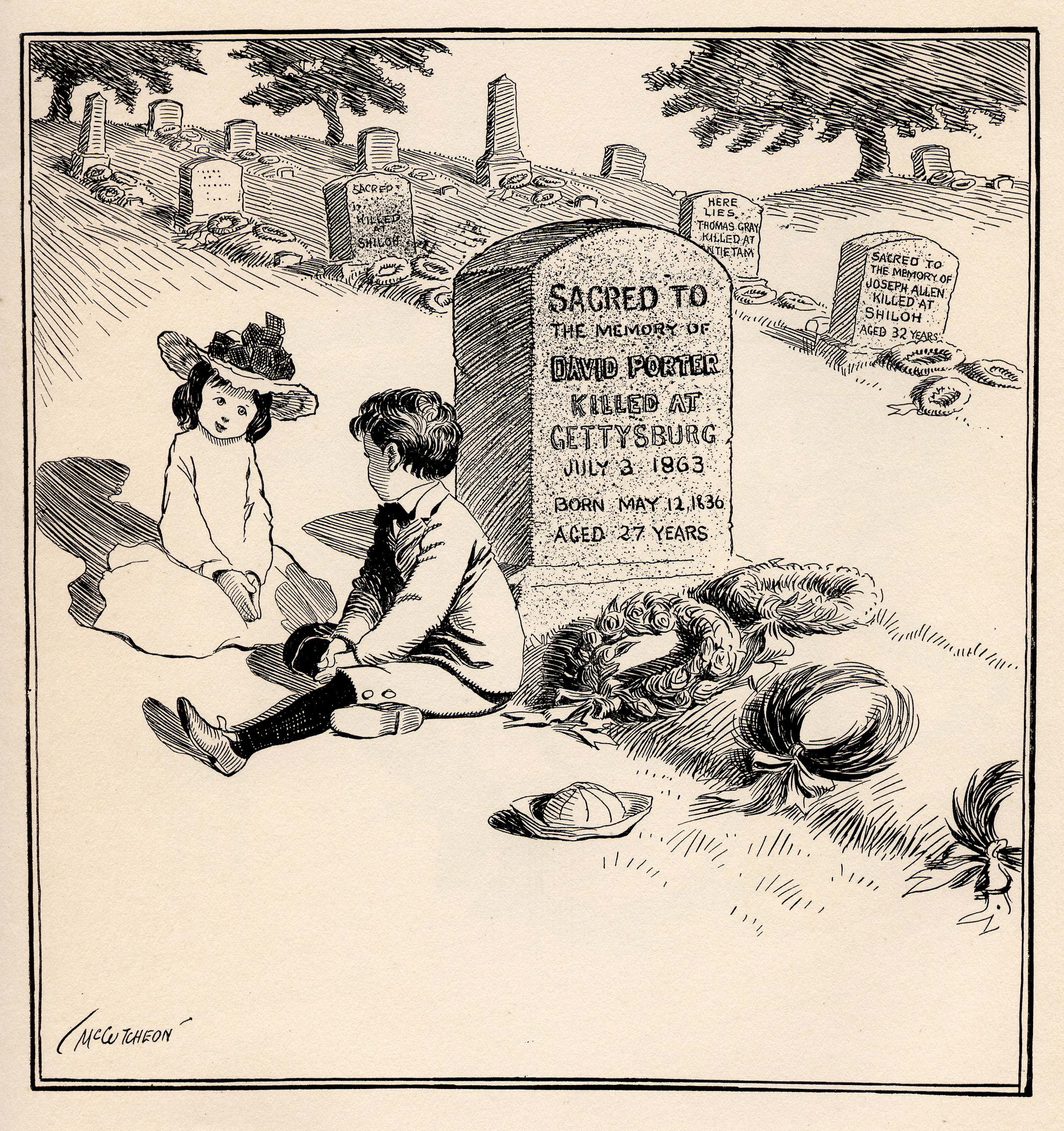 "ON DECORATION DAY" Political cartoon. A young boy and a young girl are in a graveyard with tombs of soldiers killed in the American Civil War. Caption: "You bet I'm goin' to be a soldier, too, like my Uncle David, when I grow up."